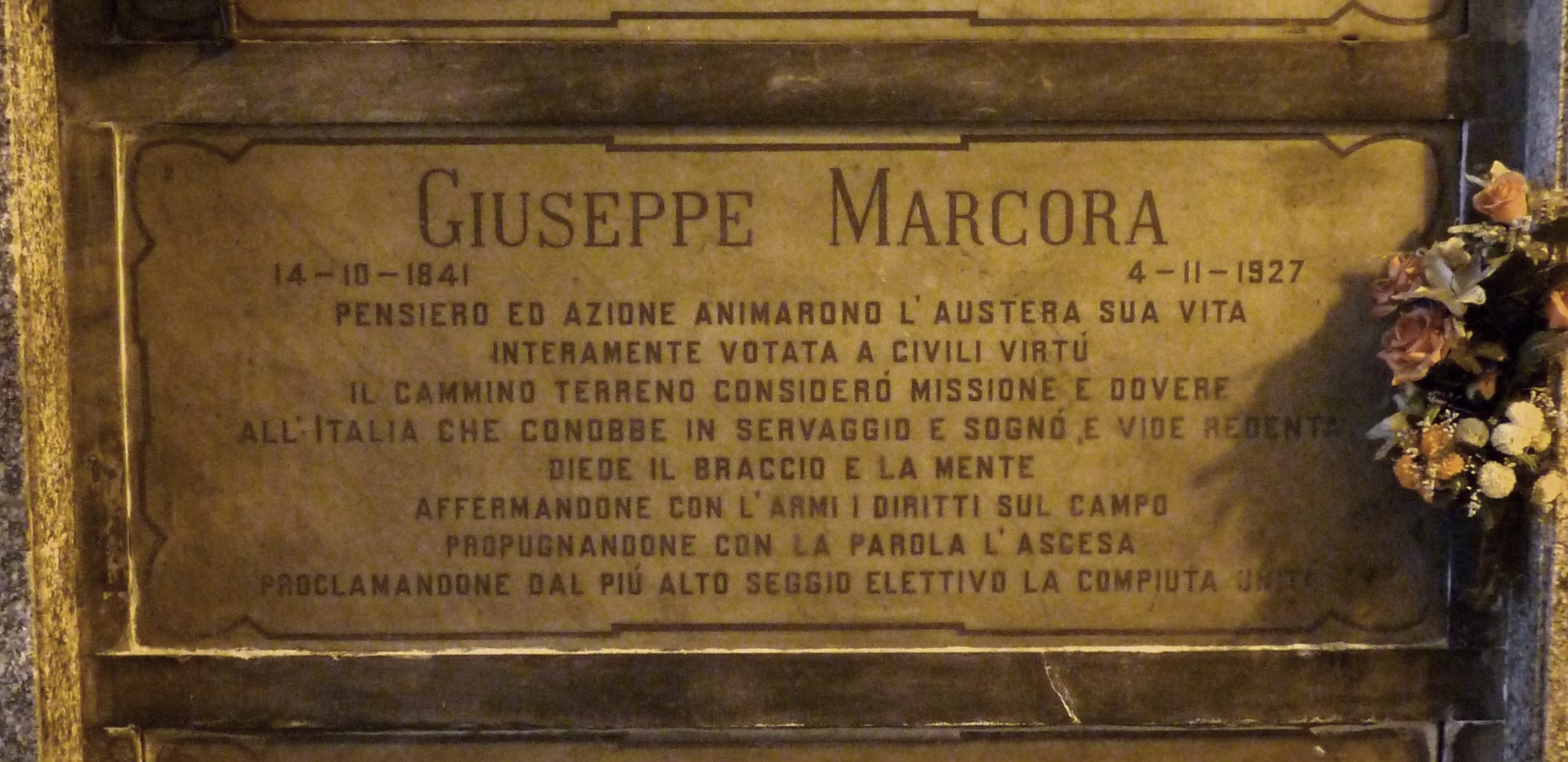 The grave of Italian politician Giuseppe Marcora at the Monumental Cemetery of Milan, Italy.